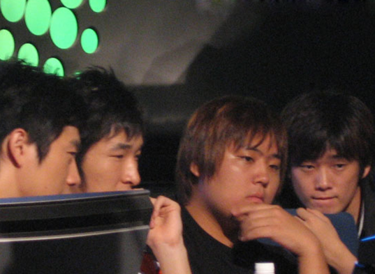 Park Sung Jun watching a game of StarCraft